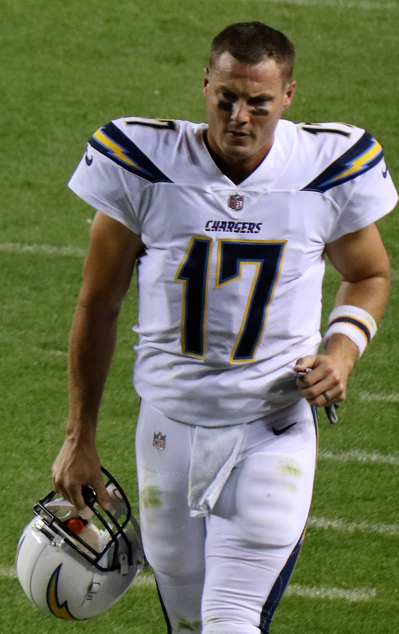 Philip Rivers, a player on the National Football League.